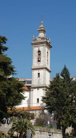 Saint James Tower, Covilhã